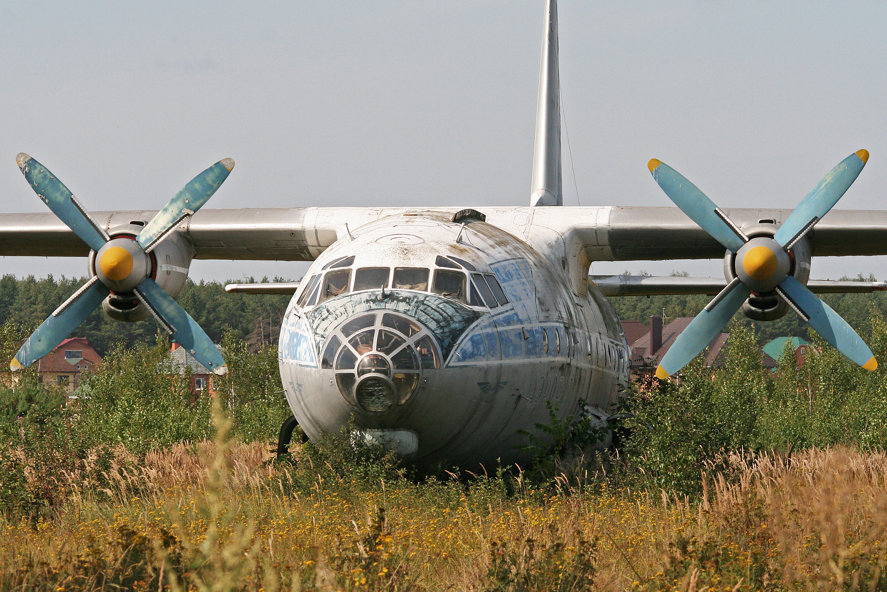 The An-10 was an airliner developed from the twin engined An-8. Named 'Ukraina' by the manufacturer, it's NATO code name was 'Cat'. The type was withdrawn from Aeroflot service in 1972 following a fatal accident which was found to be due to fatigue cracks in the wings. After a further couple of years flying for the VVS, the type was grounded and this example came to Monino. The An-12 cargo aircraft was developed from this type. c/n 0402406. On display outside at the Russian Air Force Museum. Monino, Russia. 13-8-2012